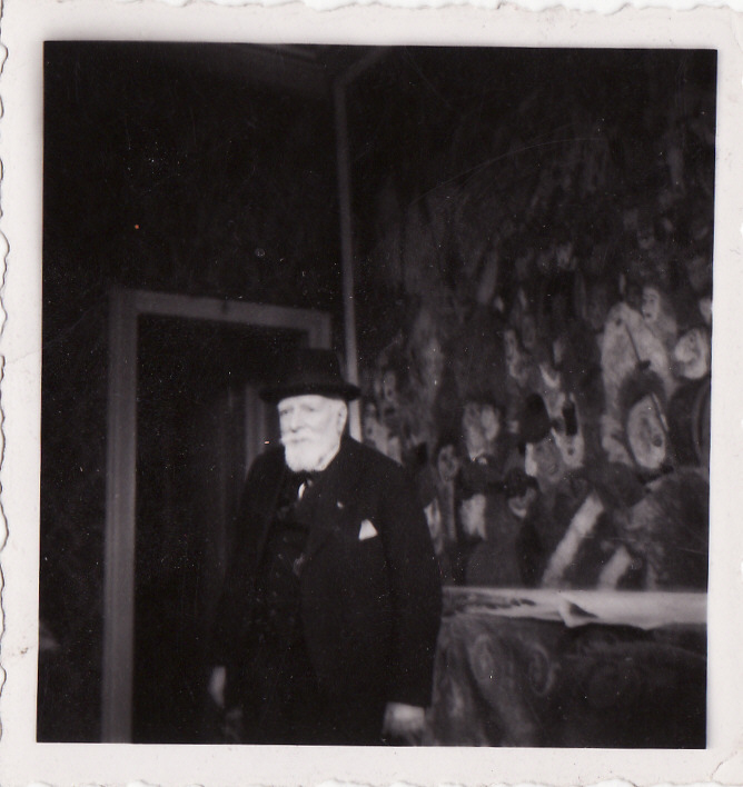 Portrait of James Ensor in front of Entry of Christ into Brussels in Ensor's house in Ostend, Belgium. Photo taken by Albert Lilar .